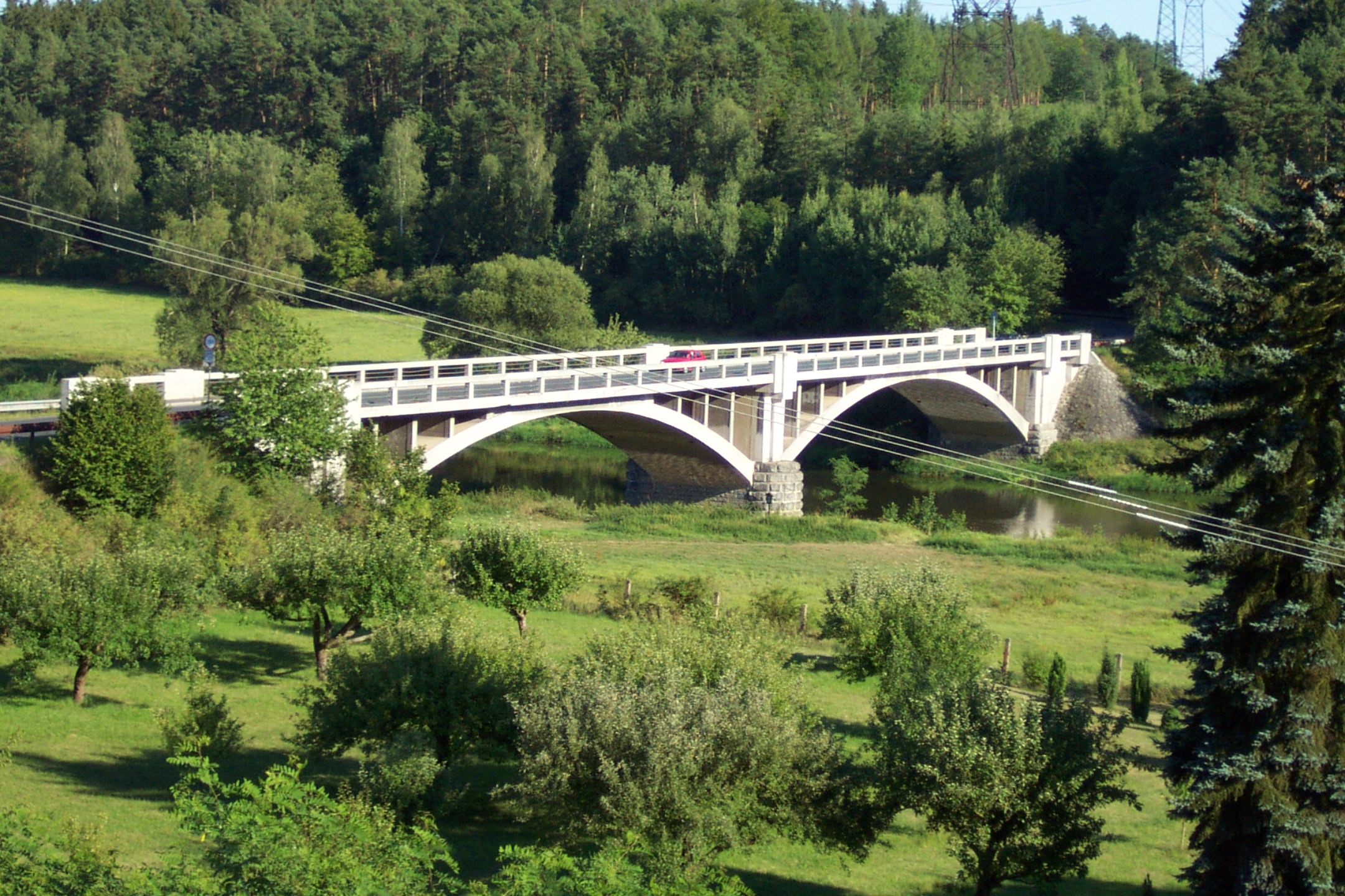 Dolany Bridge over the Berounka near village of Dolany, Plzeň-North District, Czech Republic.